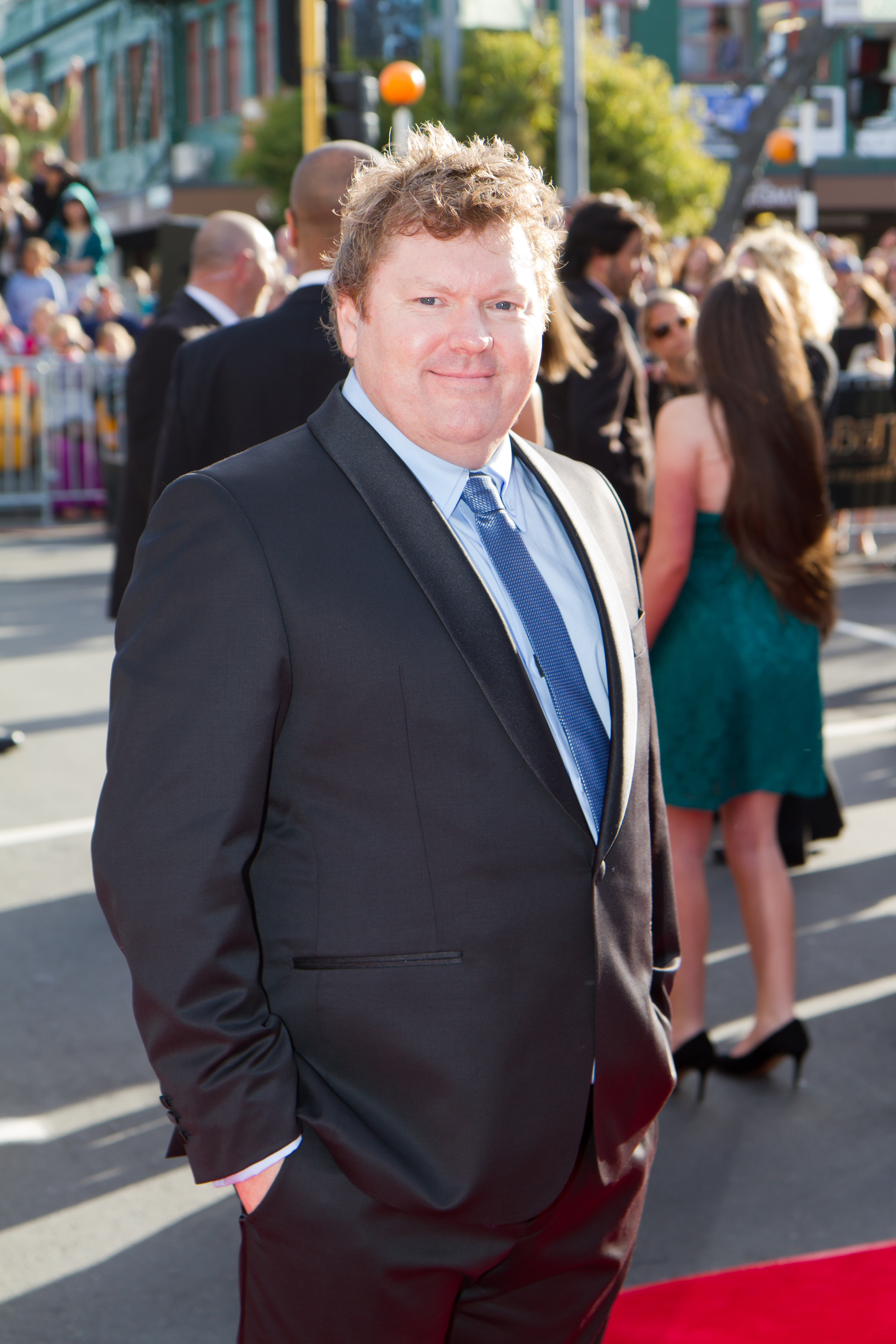 Hunter at the world premiere of The Hobbit - An Unexpected Journey, held in Wellington, New Zealand, on the 28th November 2012. More photos available at